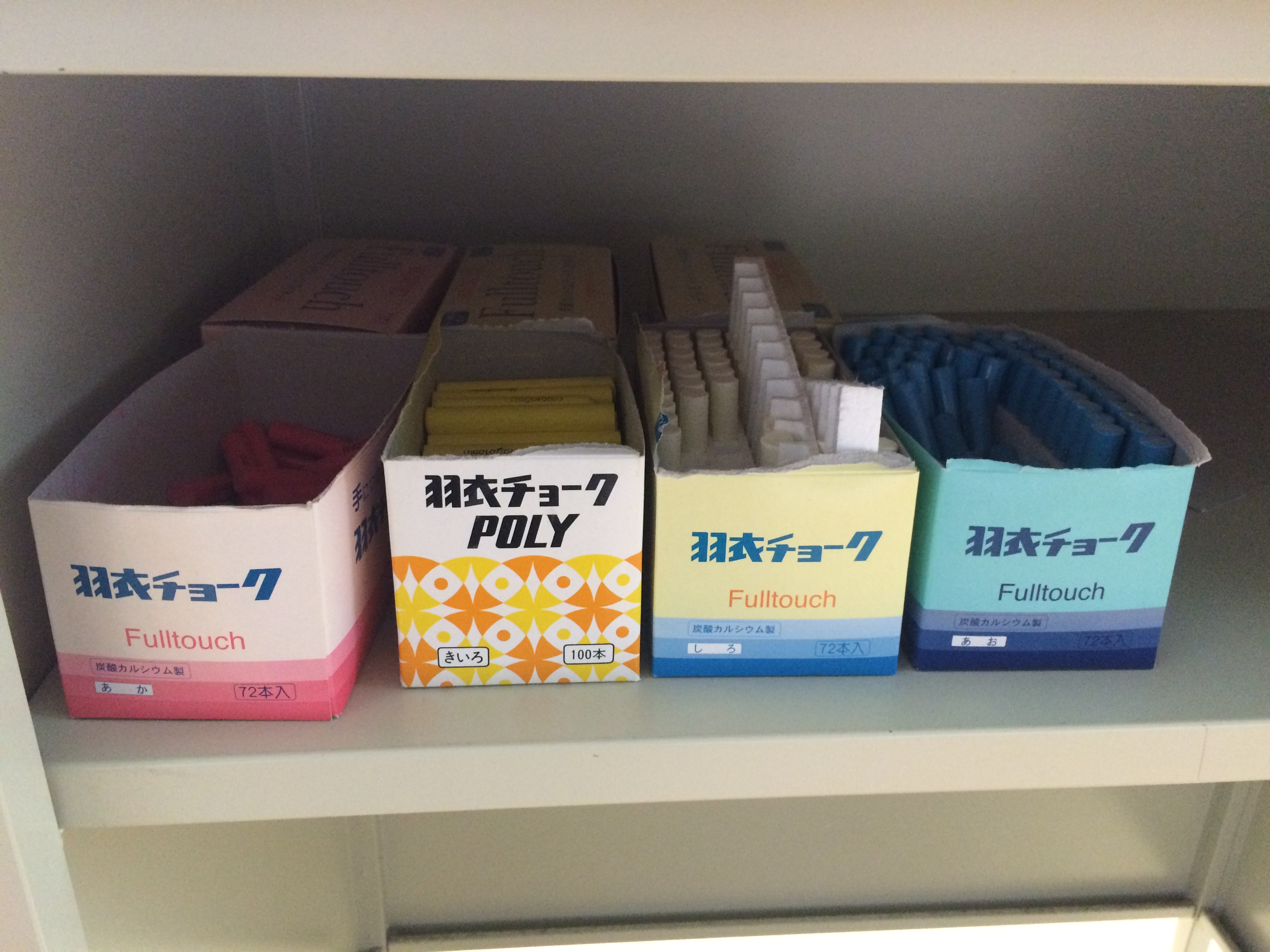 Hagoromo Fulltouch Chalk, sold by Hagoromo Stationery Co. Ltd.